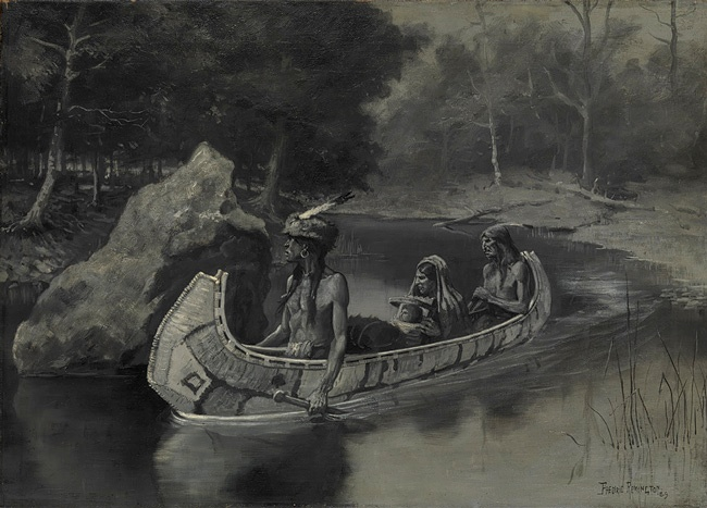 One of a series of 22 grisailes in oil made by Frederic Remington for the photogravure edition of "The Song if Hiawatha" published in 1890. This has been titled "Hiawatha's Friends", Metropolitan Museum of Art